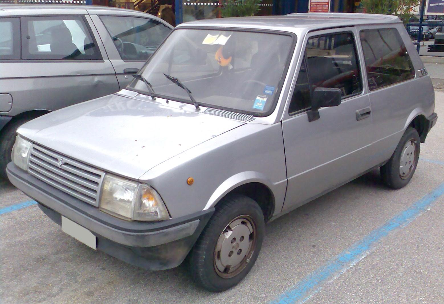 Innocenti Small 500